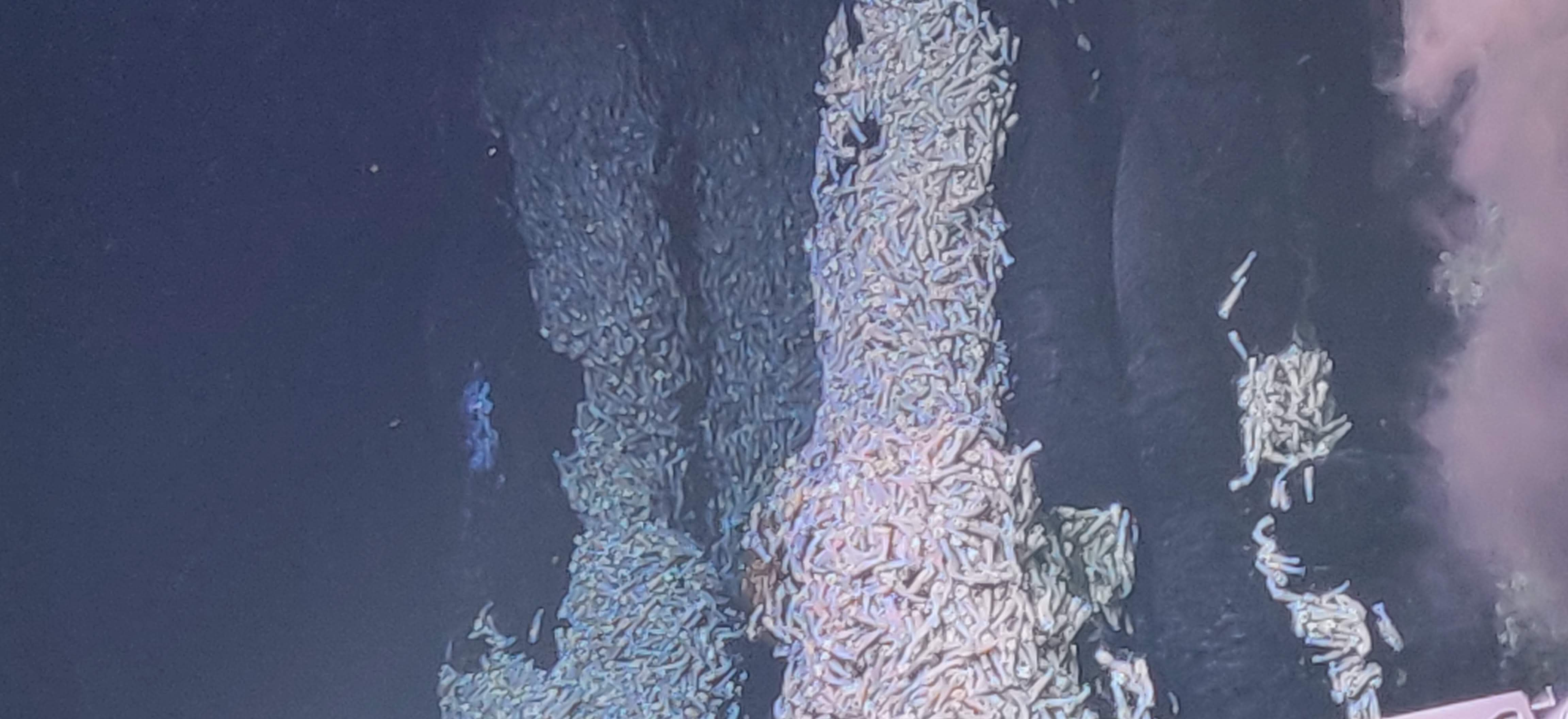 Sulfide chimneys at the Beebe 1 site of the Beebe (Piccard) vent field, covered in shrimp (Rimicaris hybisae).